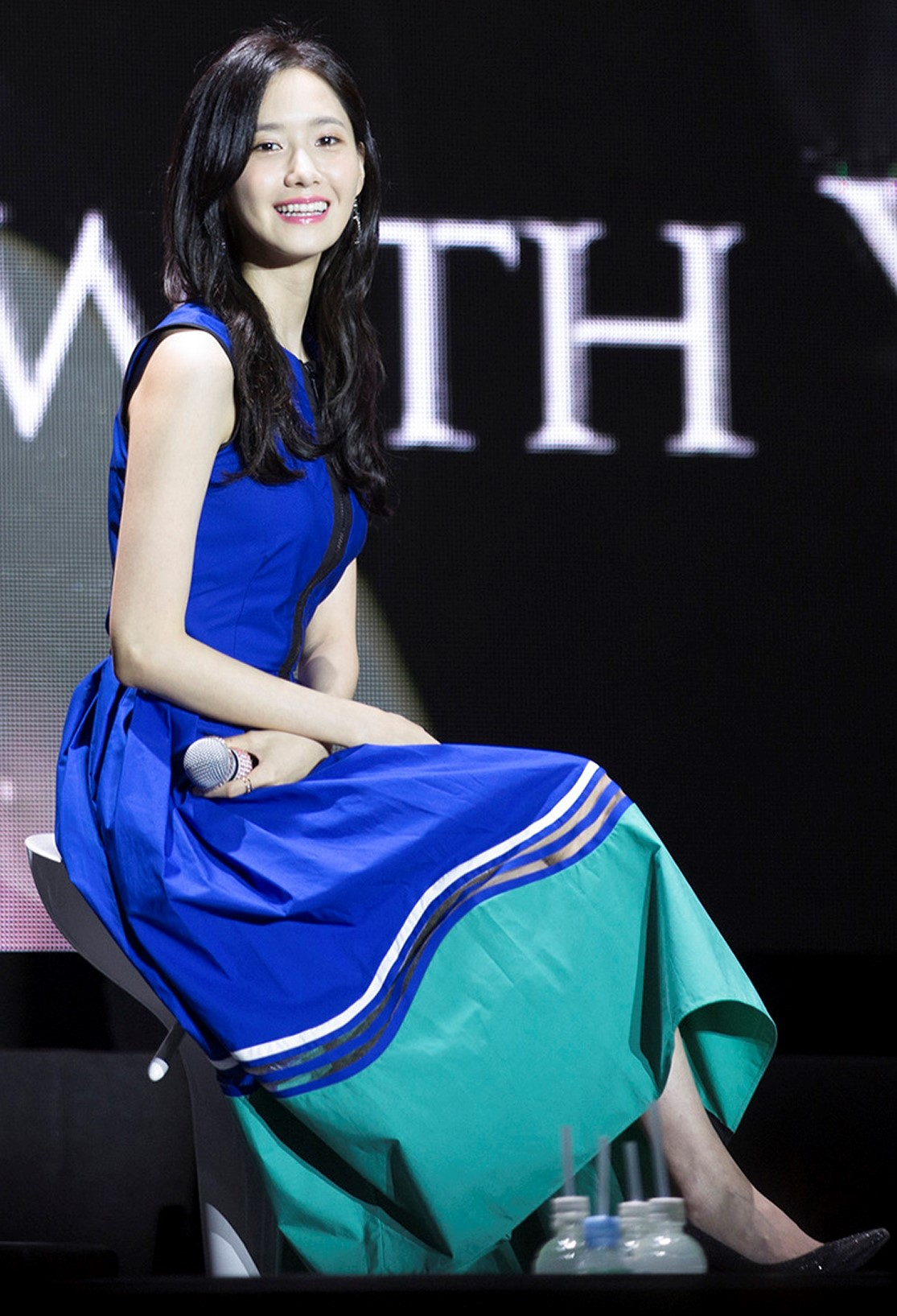 Lim Yoon-a at a fan meeting in Taiwan on January 13, 2017.